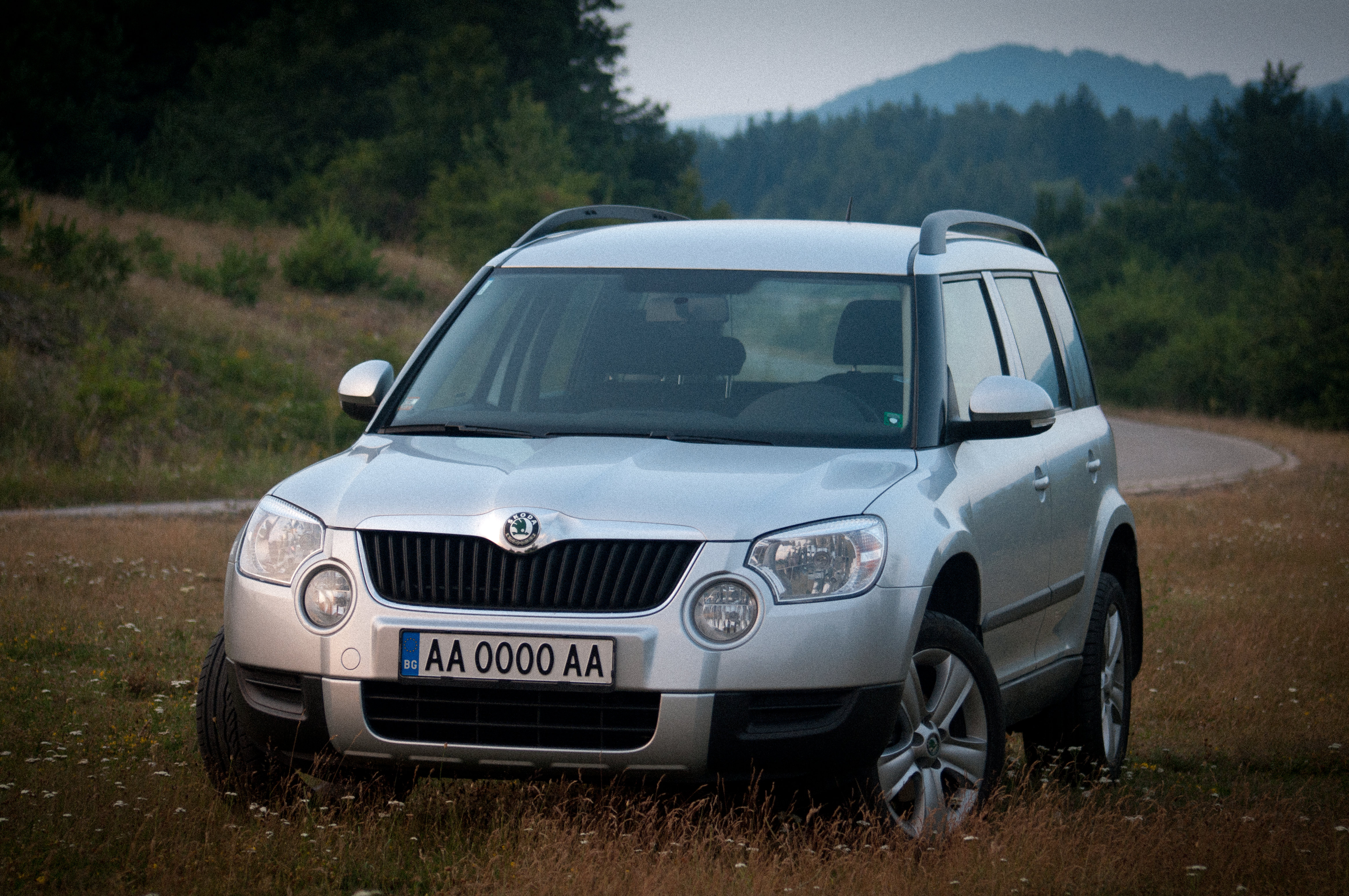 Škoda Yeti 4x4 2.0 TDI 140kW, MY 2010 "Experience" level of equipment, "Brilliant Silver metallic" colour, "Dolomite" alloys